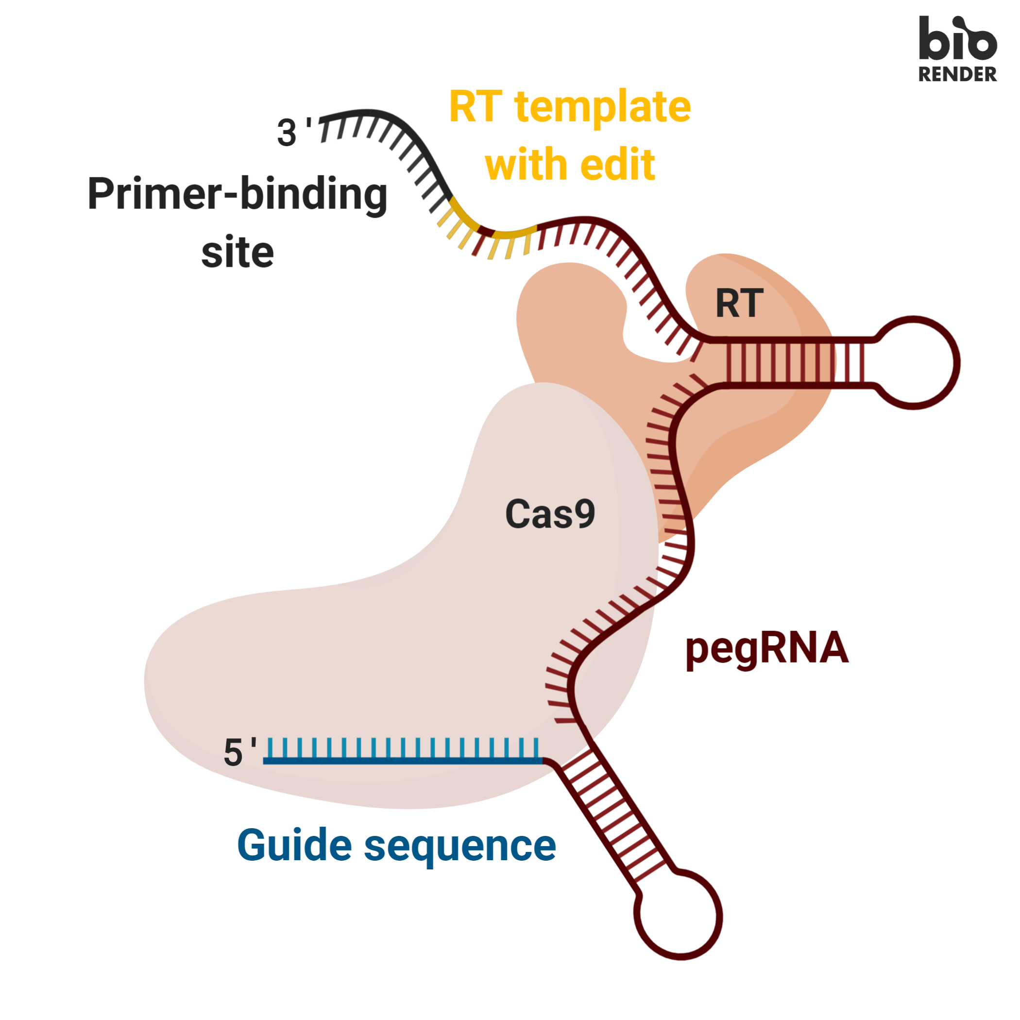 The components of the prime editing system.